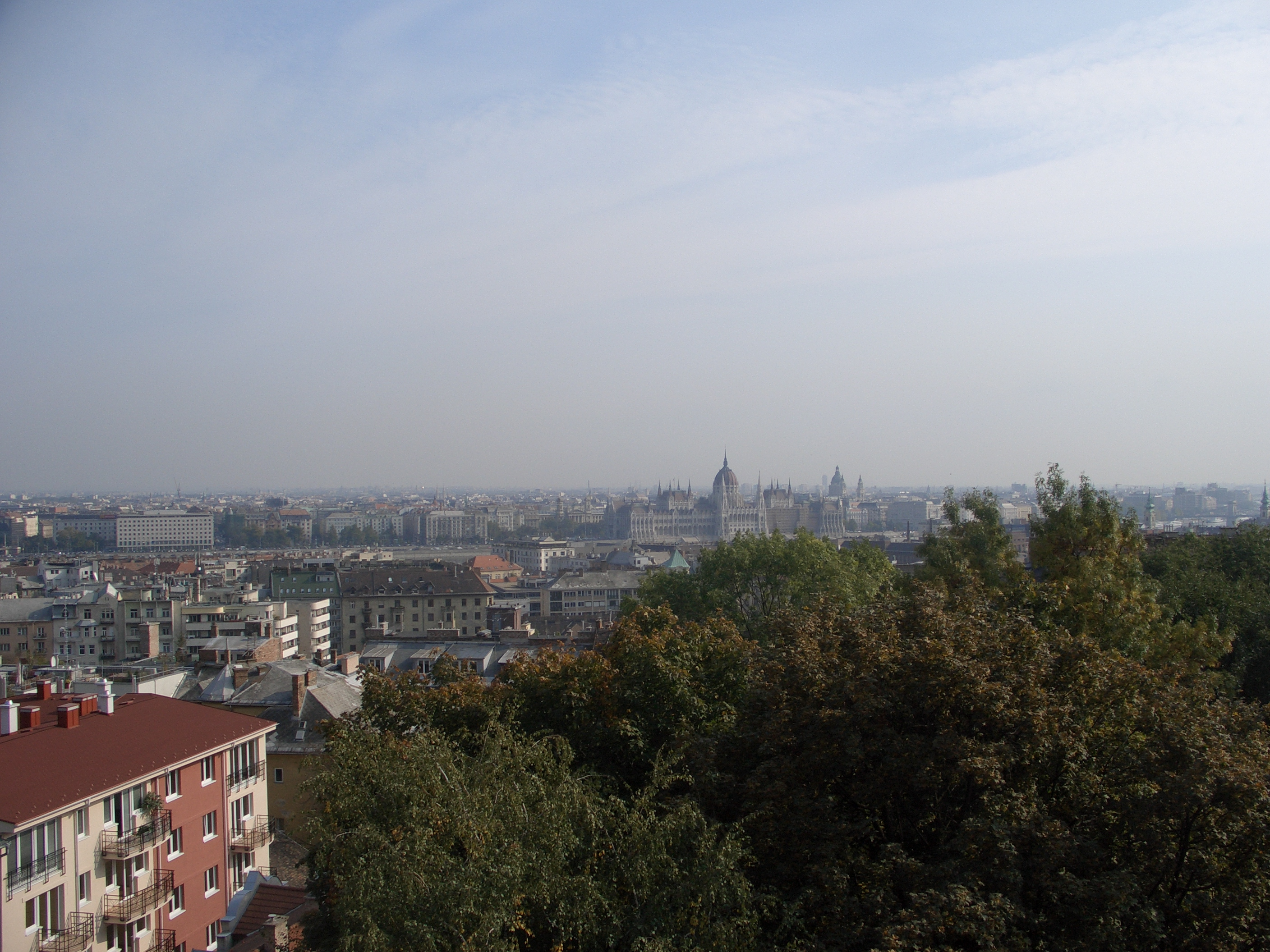 View from the European Youth Centre in Budapest, Hungary.